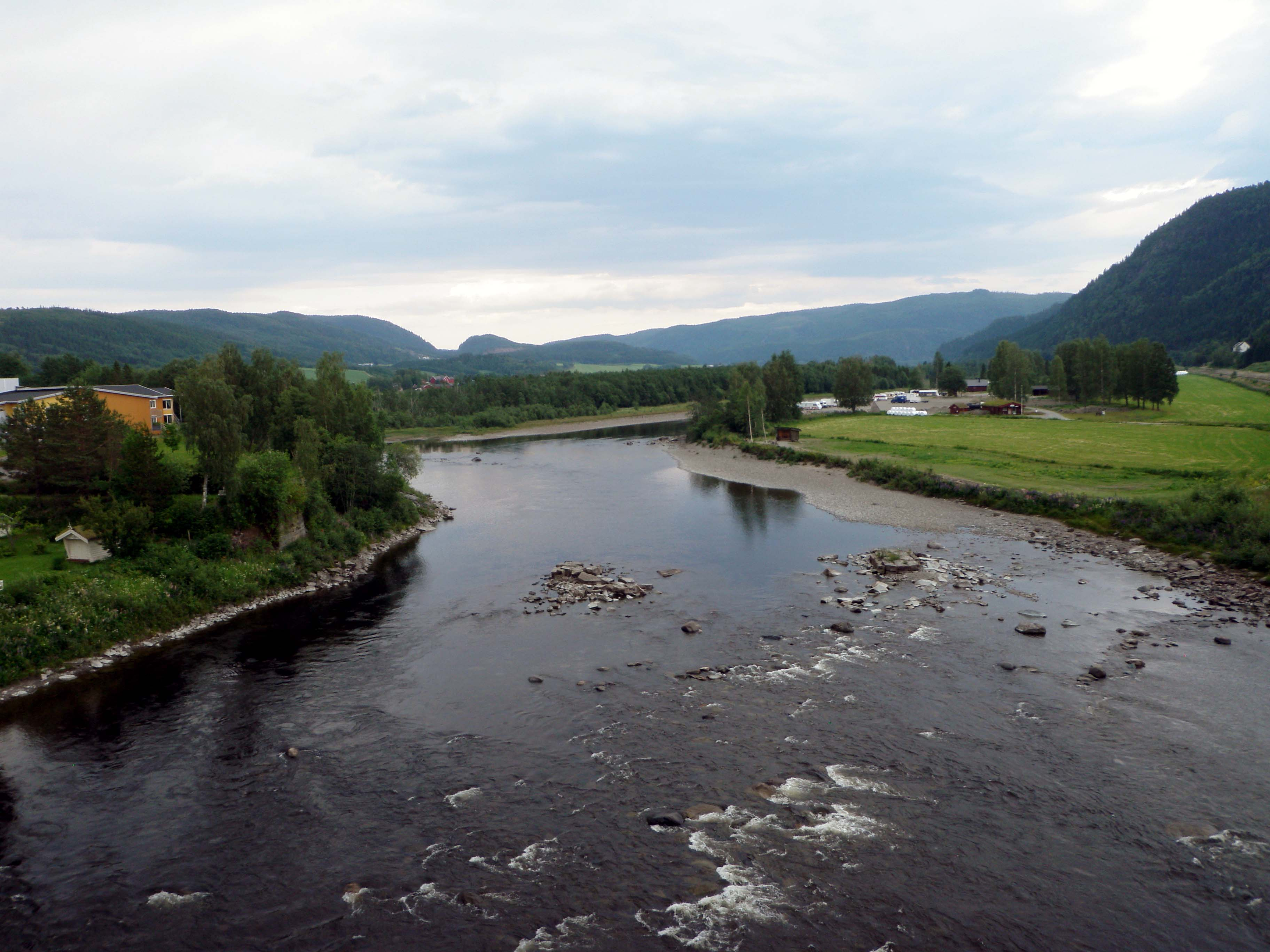 The river Stjørdalselva, at Hegra, in Stjørdal, Norway. Photo taken from Hegra Bridge.